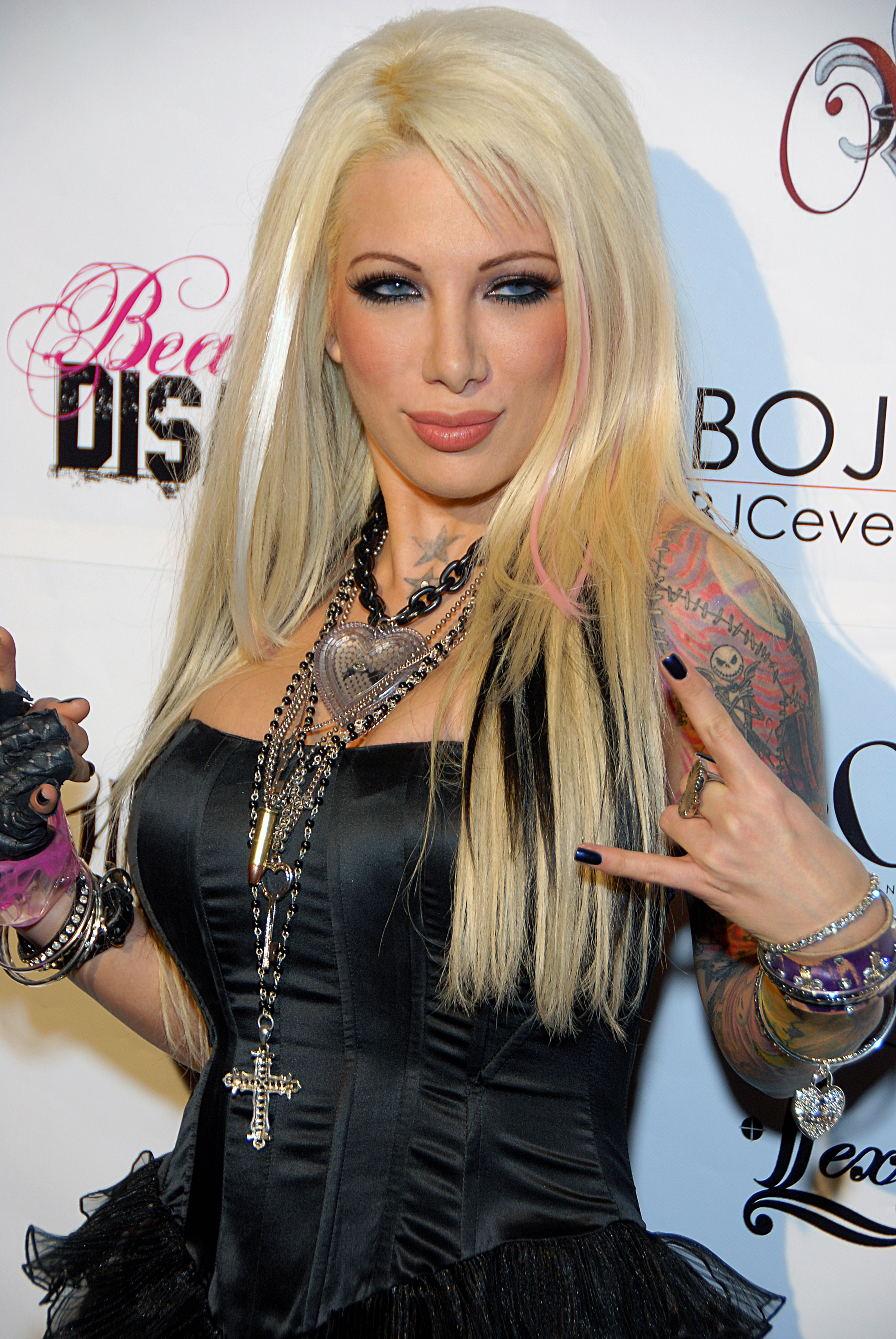 Daisy de la Hoya attending the premiere of VH1's "Daisy of Love" at My House, Hollywood, CA on April 26, 2009 - Photo by Glenn Francis of